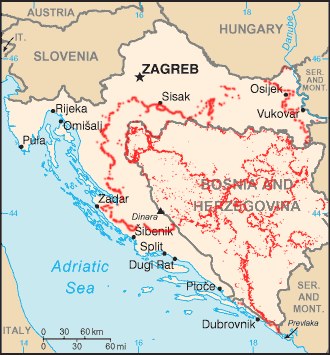 Minefields left in Croatia and Bosnia and Herzegovina after the wars during the 1990s